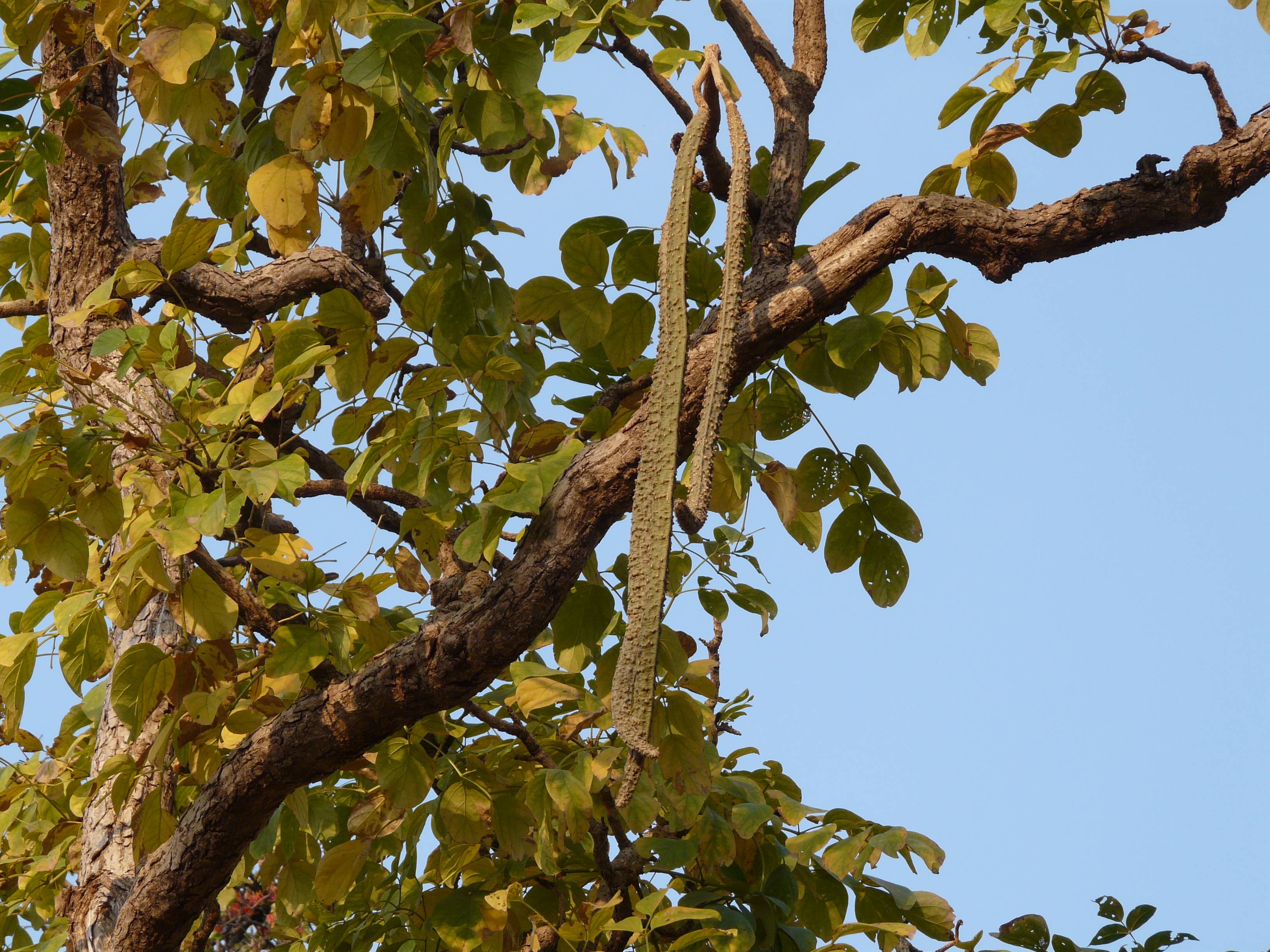 Bignoniaceae (bignonia, or jacaranda family) » Radermachera xylocarpa (Roxb.) Roxb. ex K.Schum. rad-er-MOK-er-uh -- named for Jacob Cornelis Matthias Radermacher, Dutch amateur botanist ... ‡ zy-lo-KAR-puh -- woody fruit ... Dave's Botanary commonly known as: padri tree, stag's-horn trumpet-flower tree, white-flowered trumpet-flower tree • Gujarati: ખડસીંગી khadsingi, ખરસિંગ kharsing • Kannada: ಪಾದರಿ padari • Konkani: घेणशिंगी genashingi, खरशिंगी kharsimgi • Malayalam: വെടങ്കുരണ vetankurana • Marathi: खडशिंगी khadshingi, खुरशिंग khurasinga • Tamil: பாதிரி patiri, வெடங்குறுணி vetankuruni Native to: India References: Flowers of India • NPGS / GRIN • ENVIS - FRLHT • DDSA